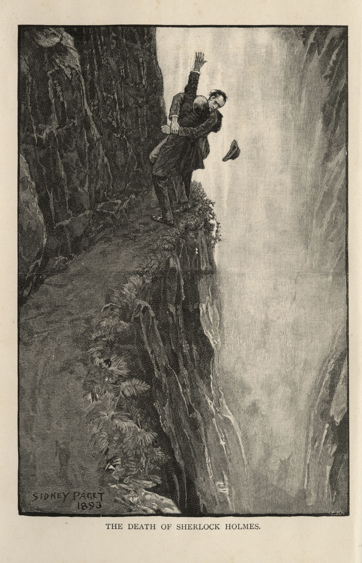 Title: "The Death of Sherlock Holmes", frontispiece from The Memoirs of Sherlock Holmes Creator: Sidney Paget (1860-1908) Date: 1894 Published: London: G. Newnes Identifier: 823.91 D598.4 1894__frontispiece; memoirs of Sherlock Holmes - frontispiece Format: frontispiece Rights: Public domain Courtesy: Toronto Public Library The frontispiece of this first edition shows Sidney Paget’s iconic image of Holmes and Moriarty’s struggle at Reichenbach Falls. This image is available from the Toronto Public Library under the reference number 823.91 D598.4 1894__frontispiece; memoirs of Sherlock Holmes - frontispieceThis tag does not indicate the copyright status of the attached work. A normal copyright tag is still required. See Commons:Licensing. English | français | +/−